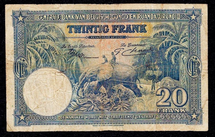 Belgian Congo 20 Francs, 1 September 1952 (01.09.52)